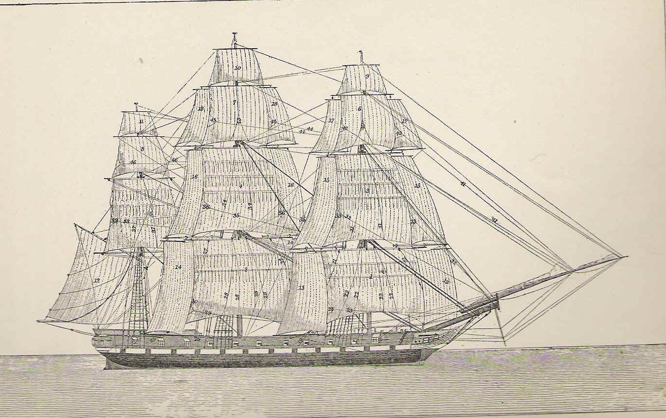 Taken from a very early edition of A Treatise on the Art of Rigging 1848 by Captain George Biddlecombe (Master in the Royal Navy) The Square-Sails and Driver of a Merchant Ship Fore-course. Main-course. Fore-top-sail Main-top-sail Mizen-top-saiL Fore-top-gallant-sail Main-top"gallant-sail. Mizen'-top-gallent-saiL Fore-royal. Main-royal. Mizen-royal. Driver. Fore-lower-studding sails. Main-lower-studding-sails. Fore-top-mast-studding-sails. Main-top-mast-studding-sails. Fore-top-gallant-studding-sails. Main-top-gallant-studding-sails. Fore-sheets. Fore tacks. Fore- leech-lines. Fore bunt-lines. Fore bowlines. Fore-bowline-bridles. Main-sheets. Main tacks. Main leech-lines. Main bunt-lines. Main bowlines. Main bowline-bridles. Fore-top-sail-bunt-lines. bowlines. bowline-bridles. Main-top-sail-bunt-lines. bowlines. bowline-bridles. Mizen-top-sail-bunt-lines. Mizen-top-sail-bowlines. Mizen-top-sail-bowline-bridles. Fore-top-gallant-bunt"lines. Fore-top-gallant-bowlines. Fore-top-gallant-bowline-bridles. Main-top-gallant-bunt-lines. Main-top-gallant-bowlines. Main-top-gallant- bowline-bridles. Mizen-top-gallant-bowlines.